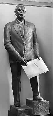 Edward Lewis "Bob" Bartlett. Bronze by Felix W. de Weldon. Donated in 1971 by the State of Alaska to the National Statuary Hall Collection in the United States Capitol, one of two statues given to honor people important to Alaska history (the other being Sen. Ernest Gruening). Located in the House connecting corridor, 2nd floor.